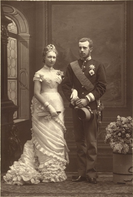 Rudolf, Crown Prince of Austria with his wife Princess Stephanie of Belgium